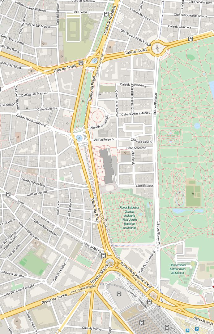 This map may be incomplete, and may contain errors. Don't rely solely on it for navigation.